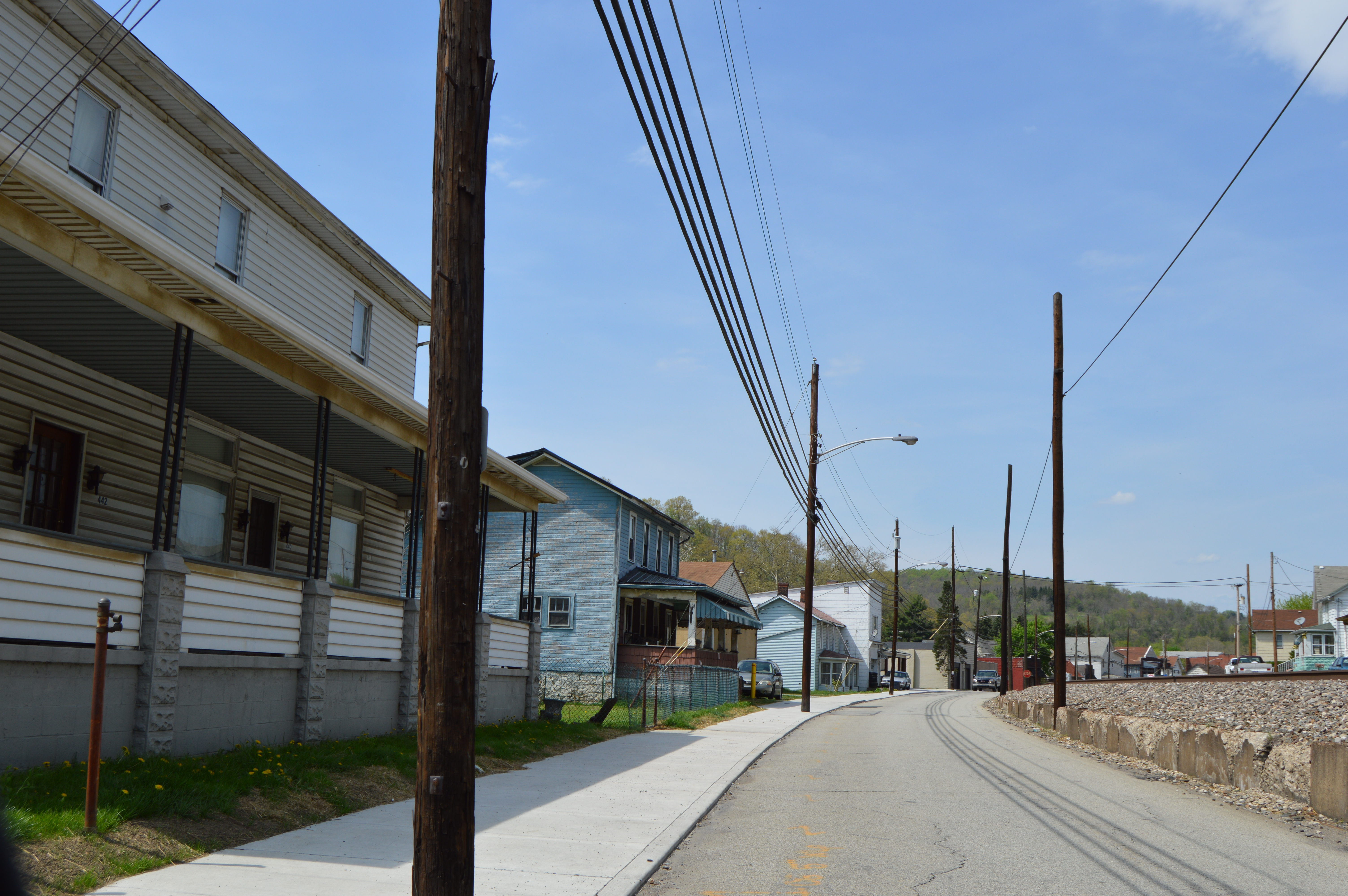 Looking north on Second Avenue from the Chestnut Street intersection in Sutersville, Pennsylvania, United States.